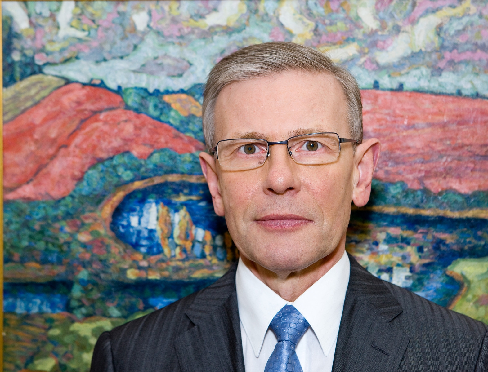 Enn Kunila